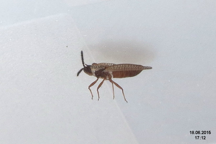 A lace-bug.